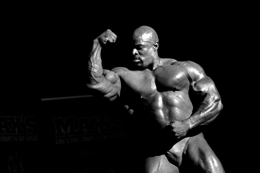 Ronnie Coleman 8 x Mr Olympia 2009 Melbourne, VIC, Australia